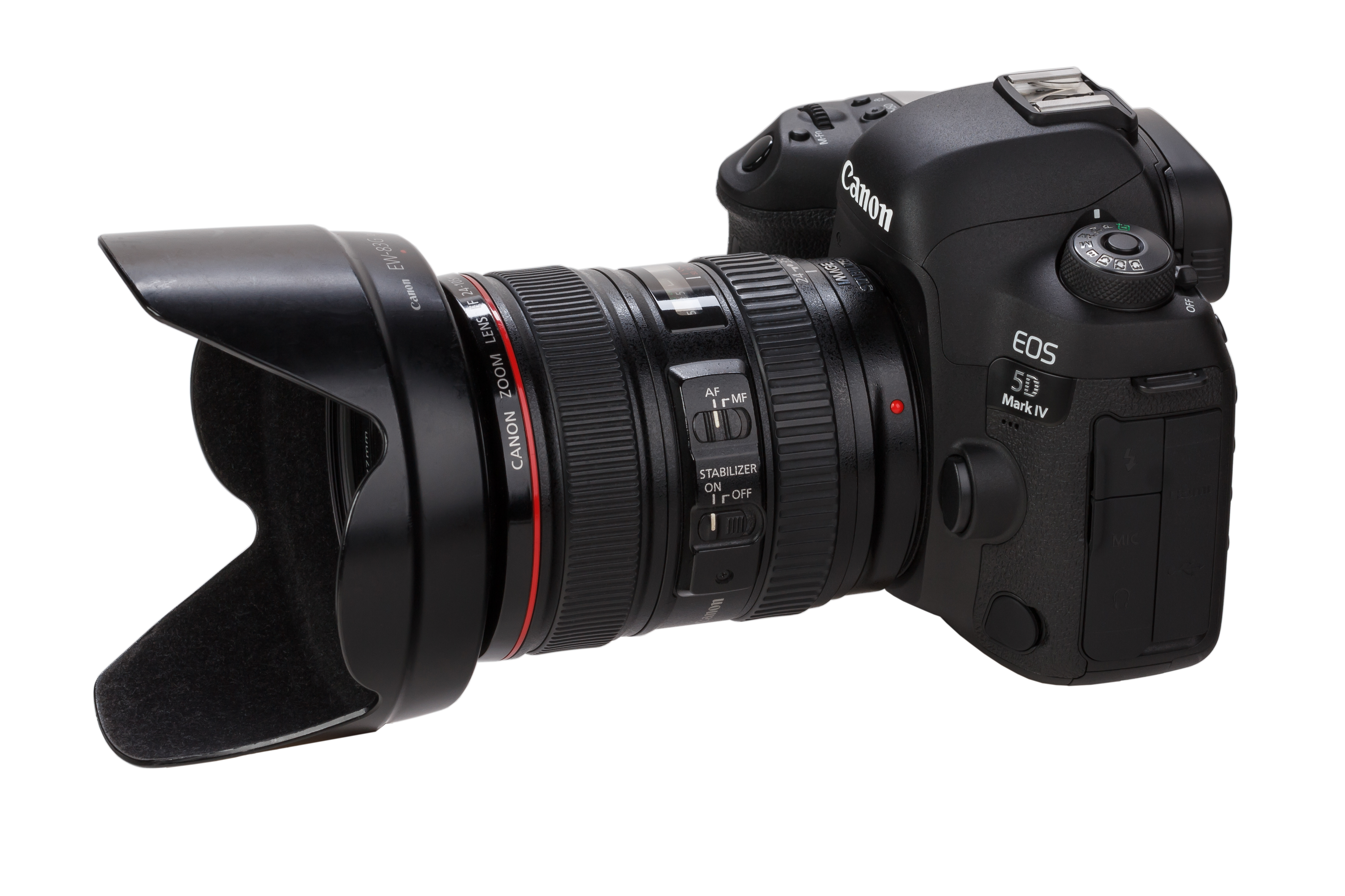 Canon EOS 5D Mark IV with EF 24-105 attached